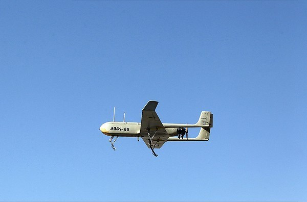 Mohajer-4 with serial number A041-65, operated by the Iranian Army Ground Force's Vali-e Asr Drone Group, shortly after taking off at Iran's "Muhammad Rasullullah" wargames exercise in Jask port, southern Iran.